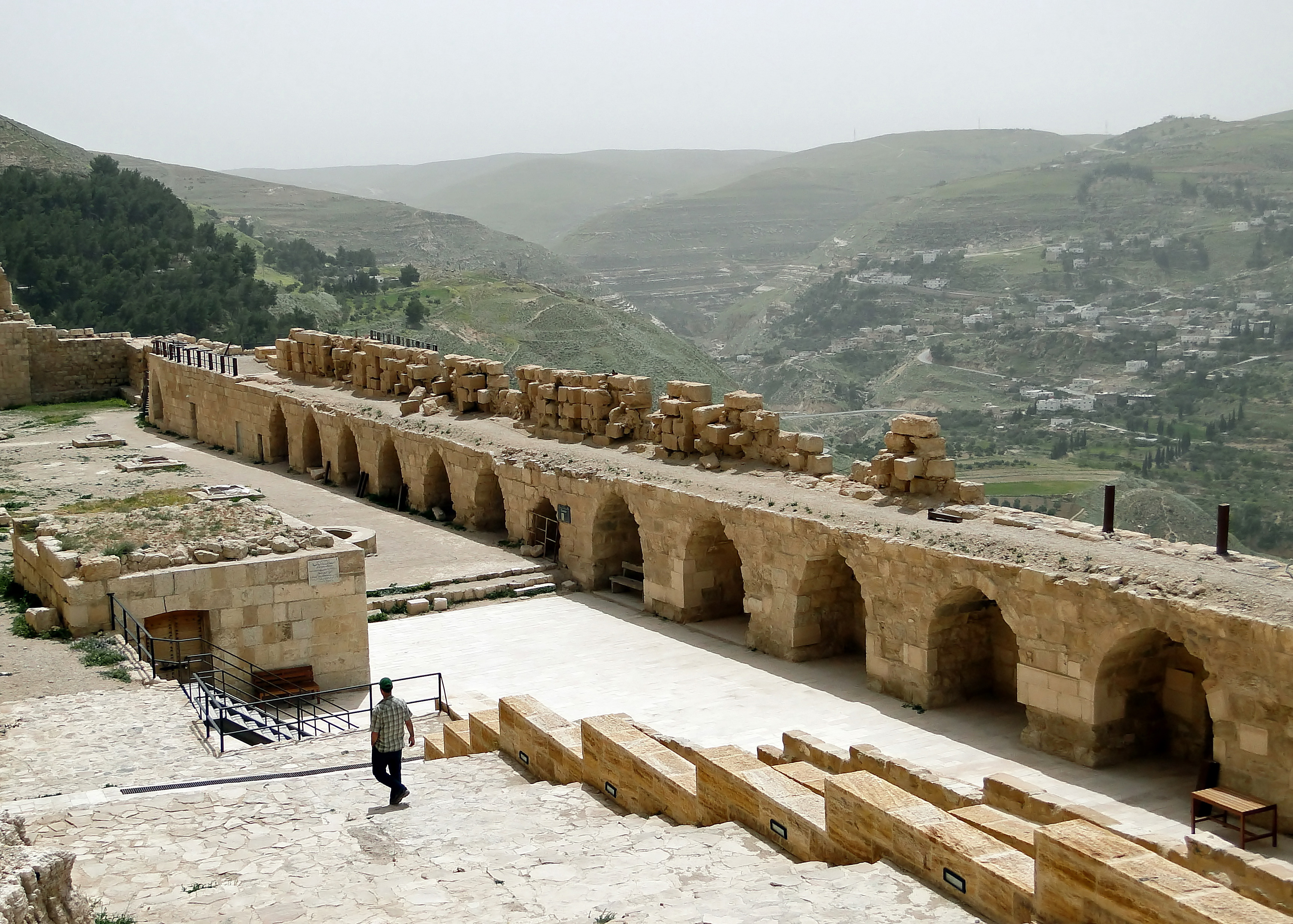 Lower court of the Karak castle, Al Karak, Jordan